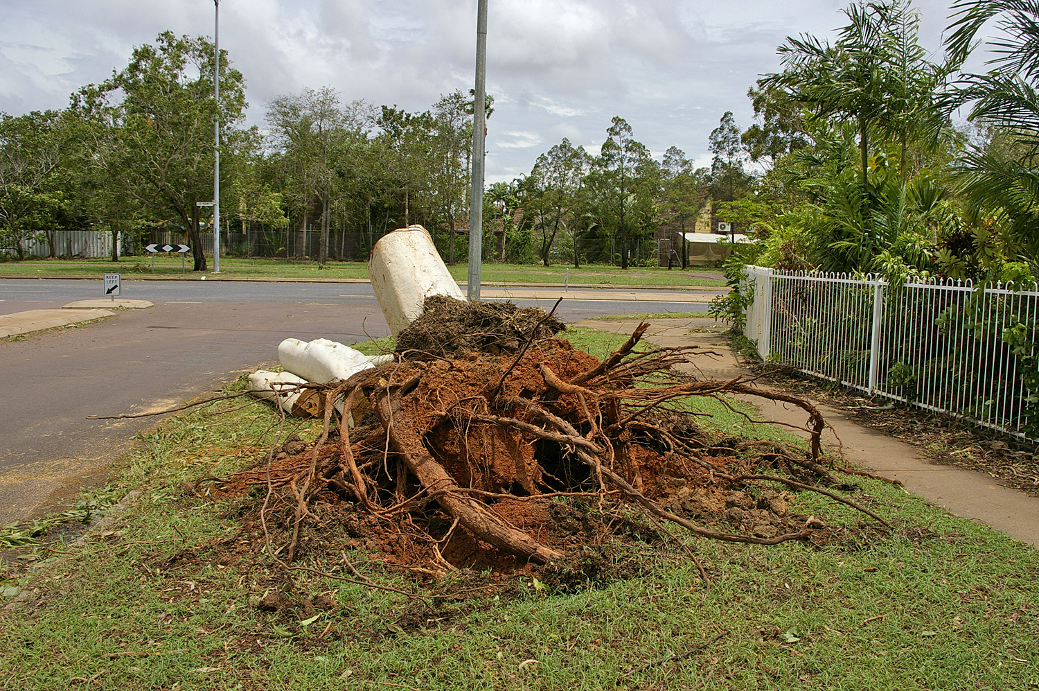 Remains of a large Ghost Gum (Corymbia bella) which was uprooted during Cyclone Helen.